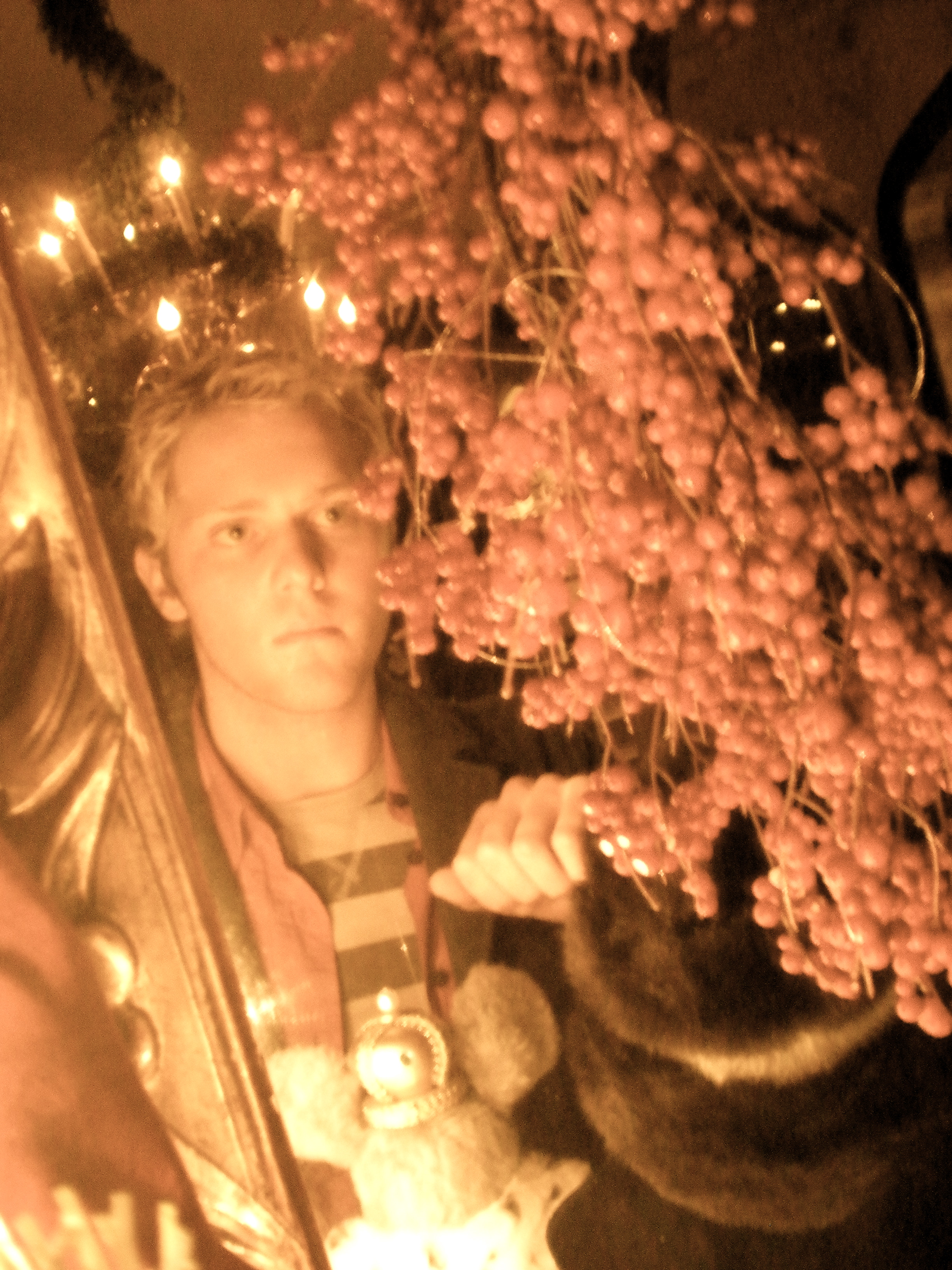 Image of a young man appearing in a mirror